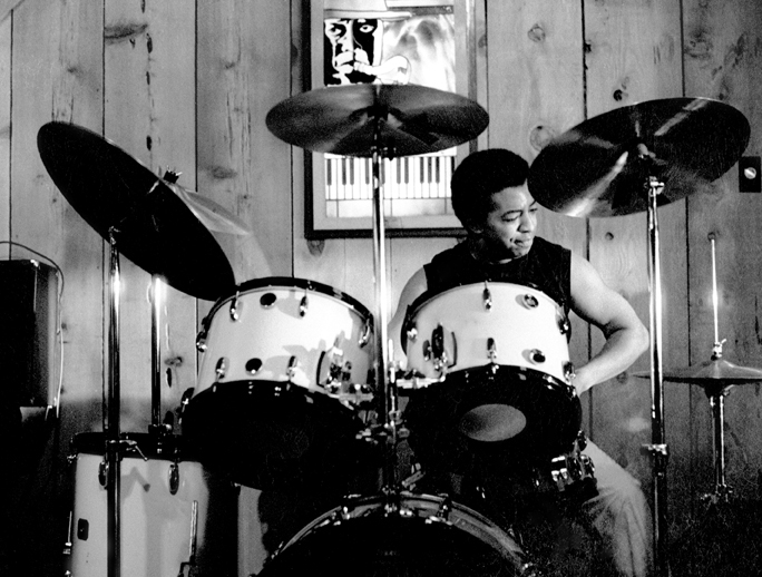 Tony Williams at Bach Dancing&Dynamite Society, Half Moon Bay CA 11/16/86. With Wallace Roney, trumpet; Bill Pierce, tenor sax; Mulgrew Miller, piano; Charnett Moffett, bass. Photo by: Brian McMillen /